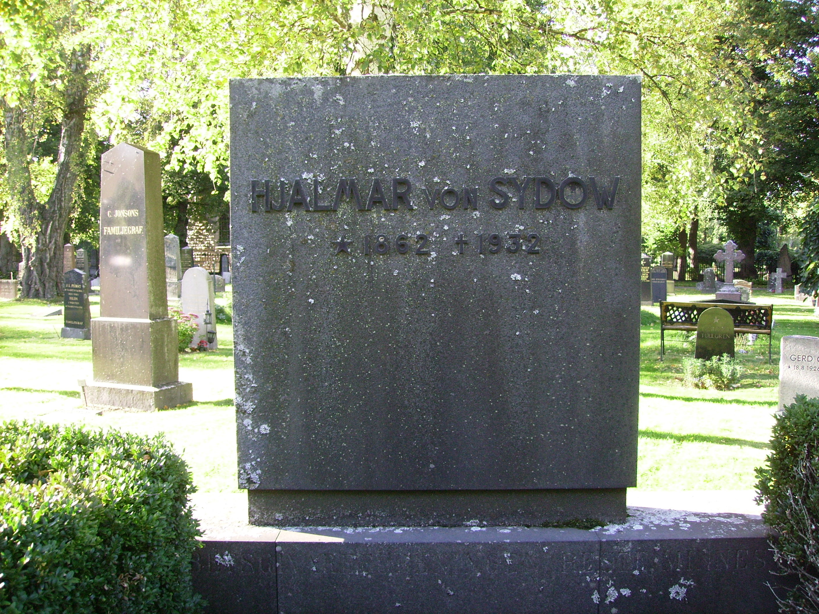 Picture of Hjalmar von Sydow's grave at Norra begravningsplatsen in Solna